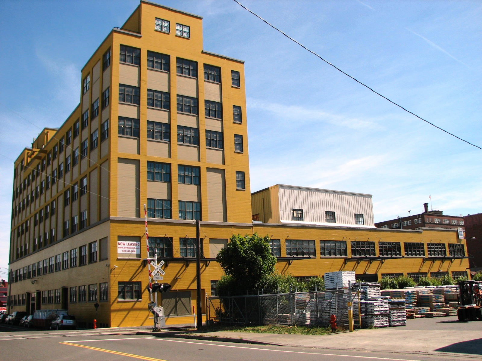 The historic Olympic Cereal Mill (built 1920), located at 107 Southeast Washington Street in Portland, Oregon, United States, is listed on the US National Register of Historic Places.